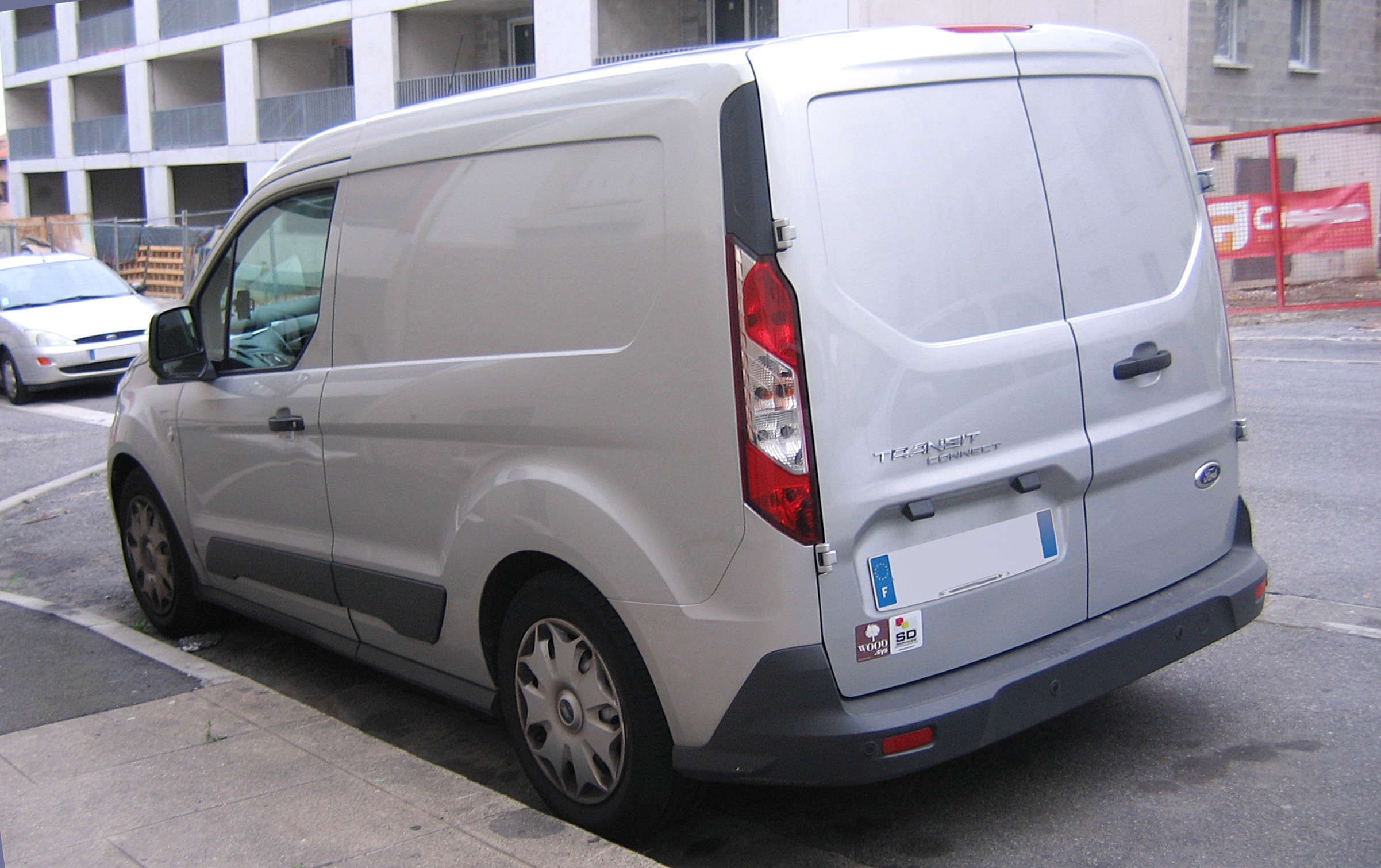 A second generation Ford Transit Connect.